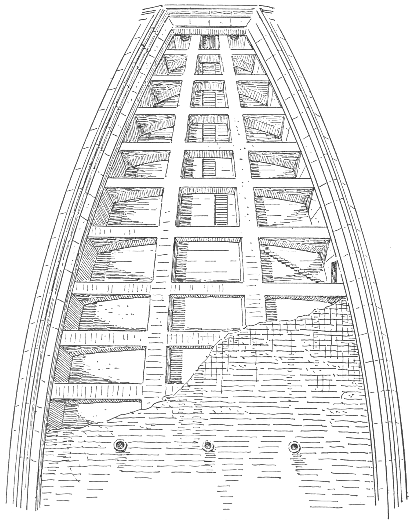 System of the dome, Florence Cathedral, figure 7 from "Character of Renaissance Architecture"